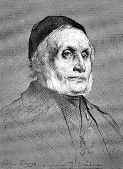 French painter Joseph-Nicolas Robert-Fleury (1797-1890) by Gaston Thys (1863-1893) after Jules Joseph Lefebvre (1836-1911)